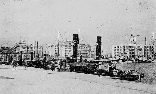 Kobe-Meriken Hatoba circa 1930